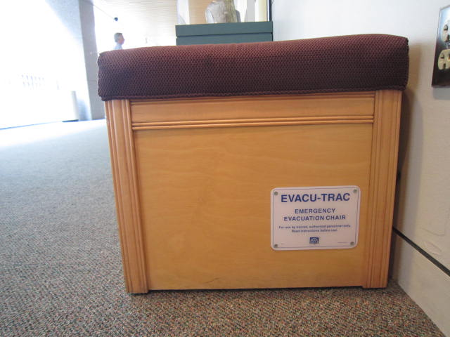 Hinge-lid bench containing an Evacu-Trac chair